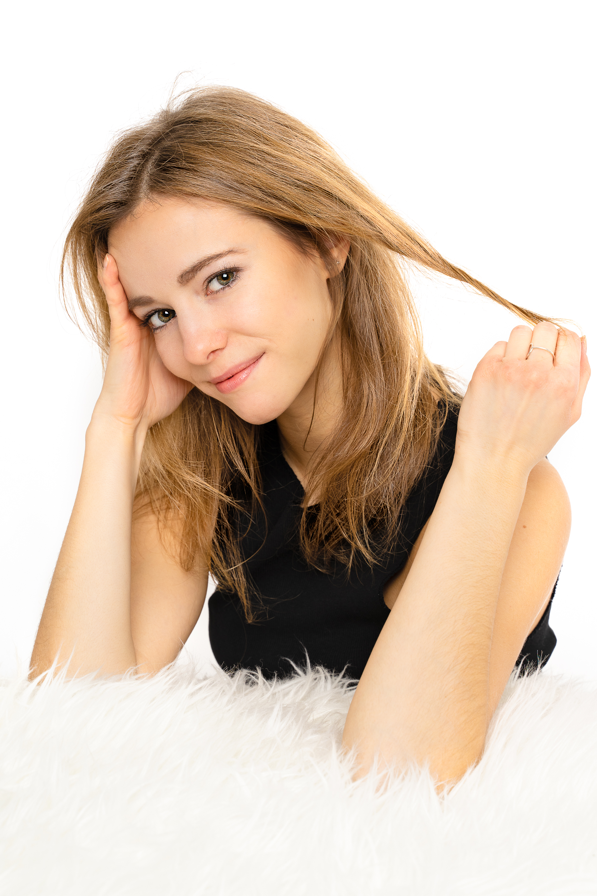 Portrait of Vanessa Zips